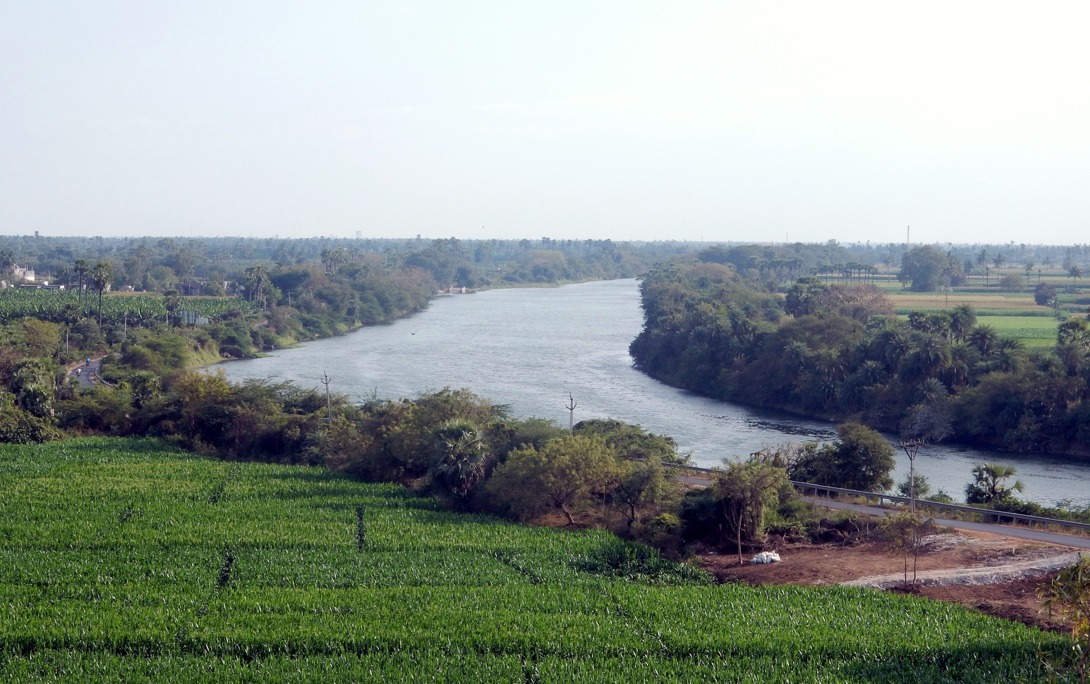 Buckingham Canal near KL University, Guntur District of the Indian state of Andhra Pradesh